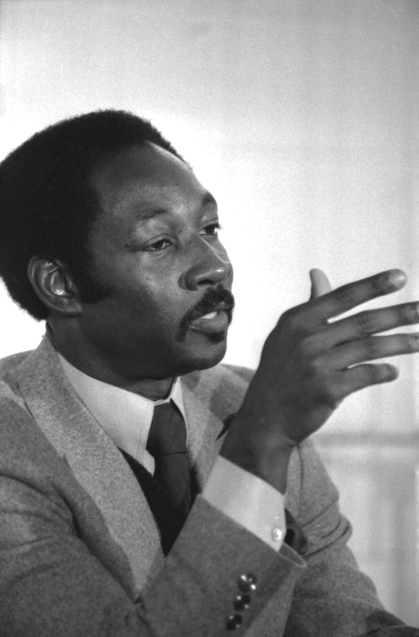 Deborah Thomas collection Series M98-4; Box 2, FF23